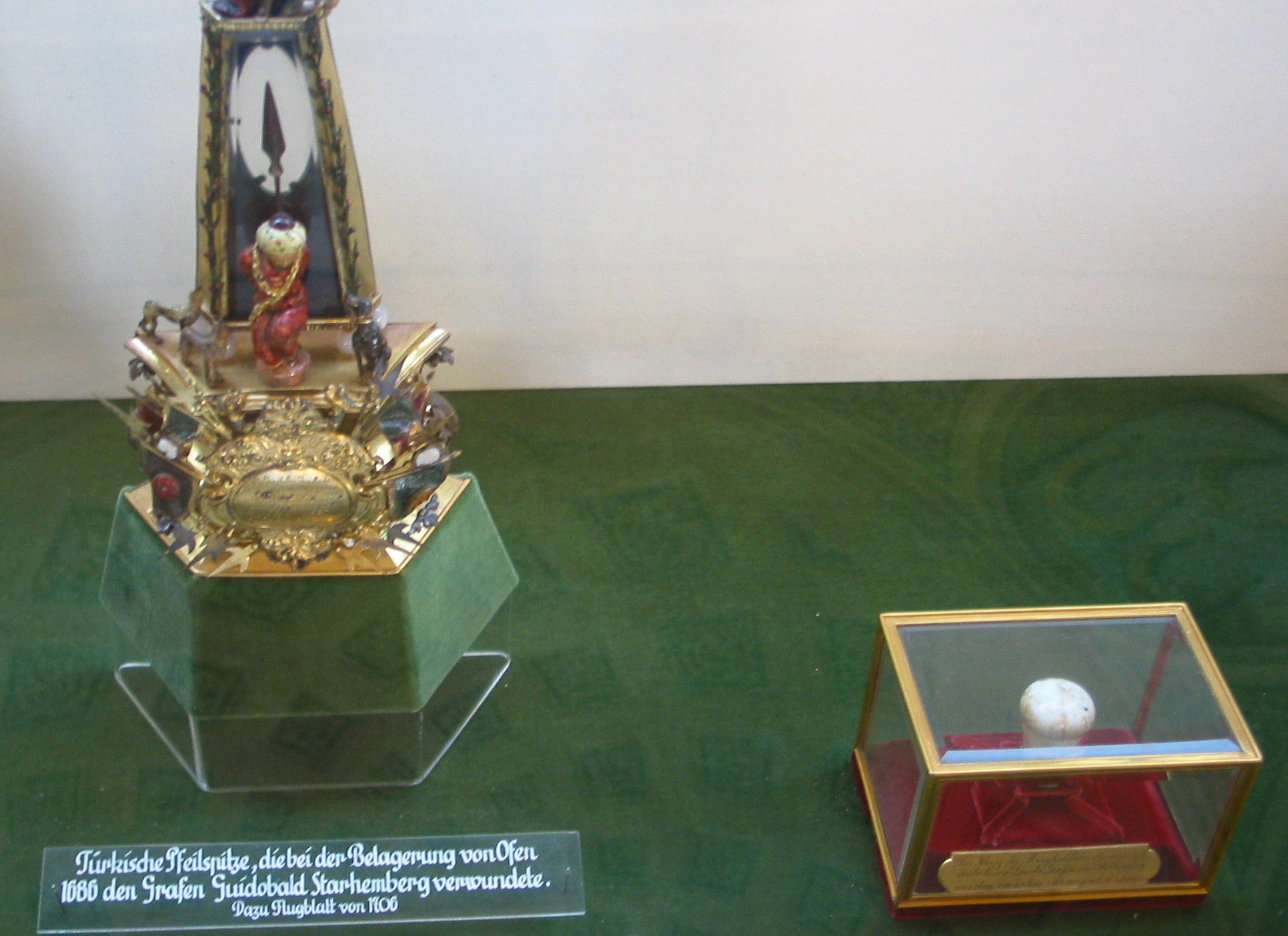 Reliquary of Guido von Starhemberg, imperial field marshal, in the Heeresgeschichtliches Museum (Army History Museum in Vienna, Austria. A turkish arrowhead (from his shoulder) and the head of his marshal's baton.